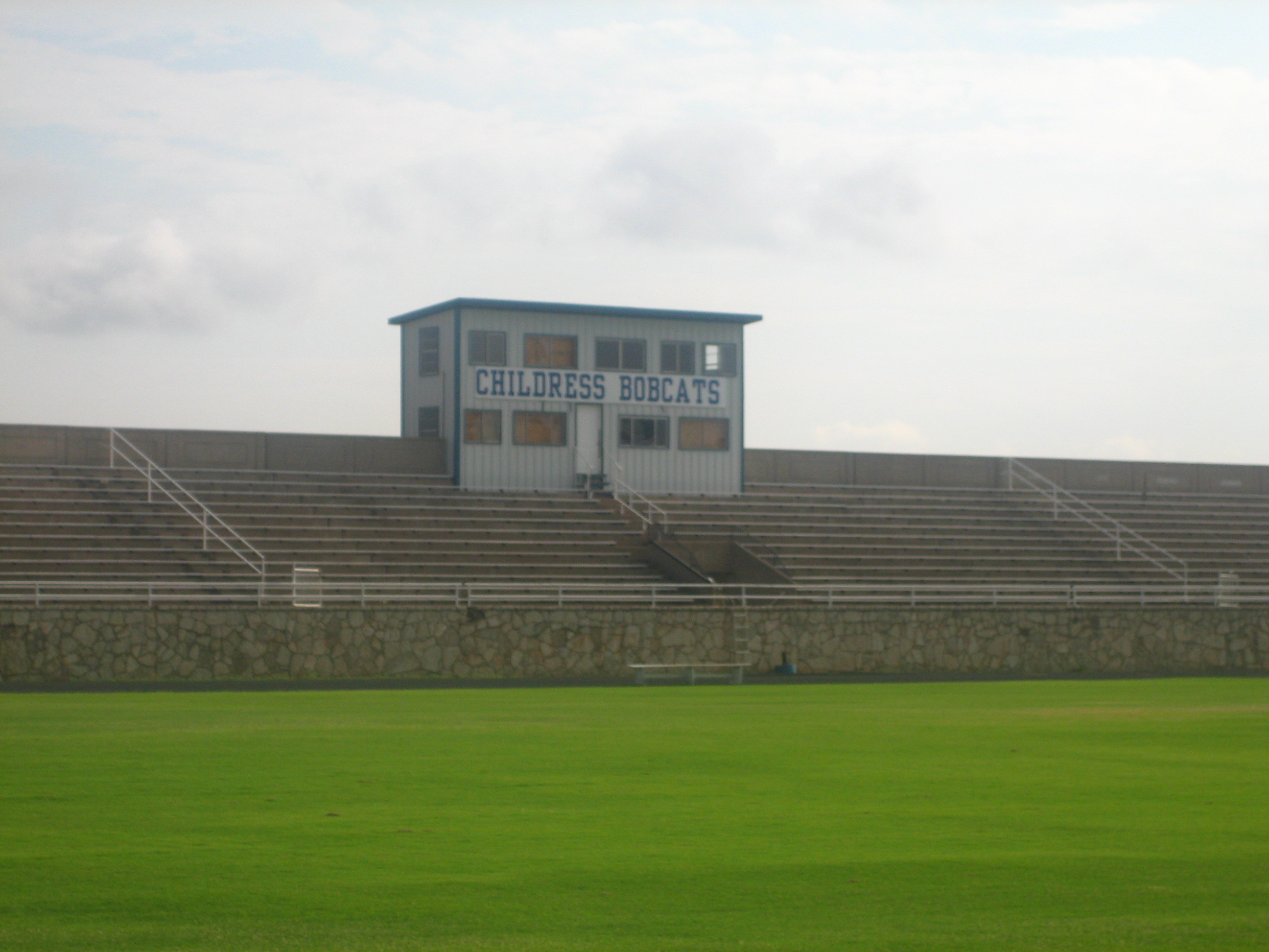 Bleachers and (presumably) announcers' booth at Childress High School stadium, Childress, Texas.